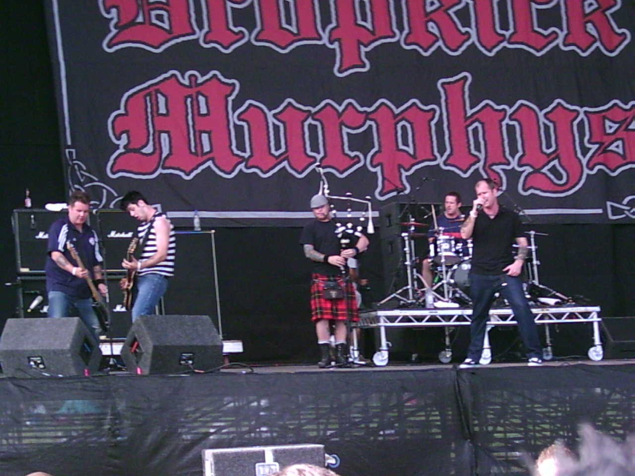 Dropkick Murphys at Leeds Festival, England, 2007